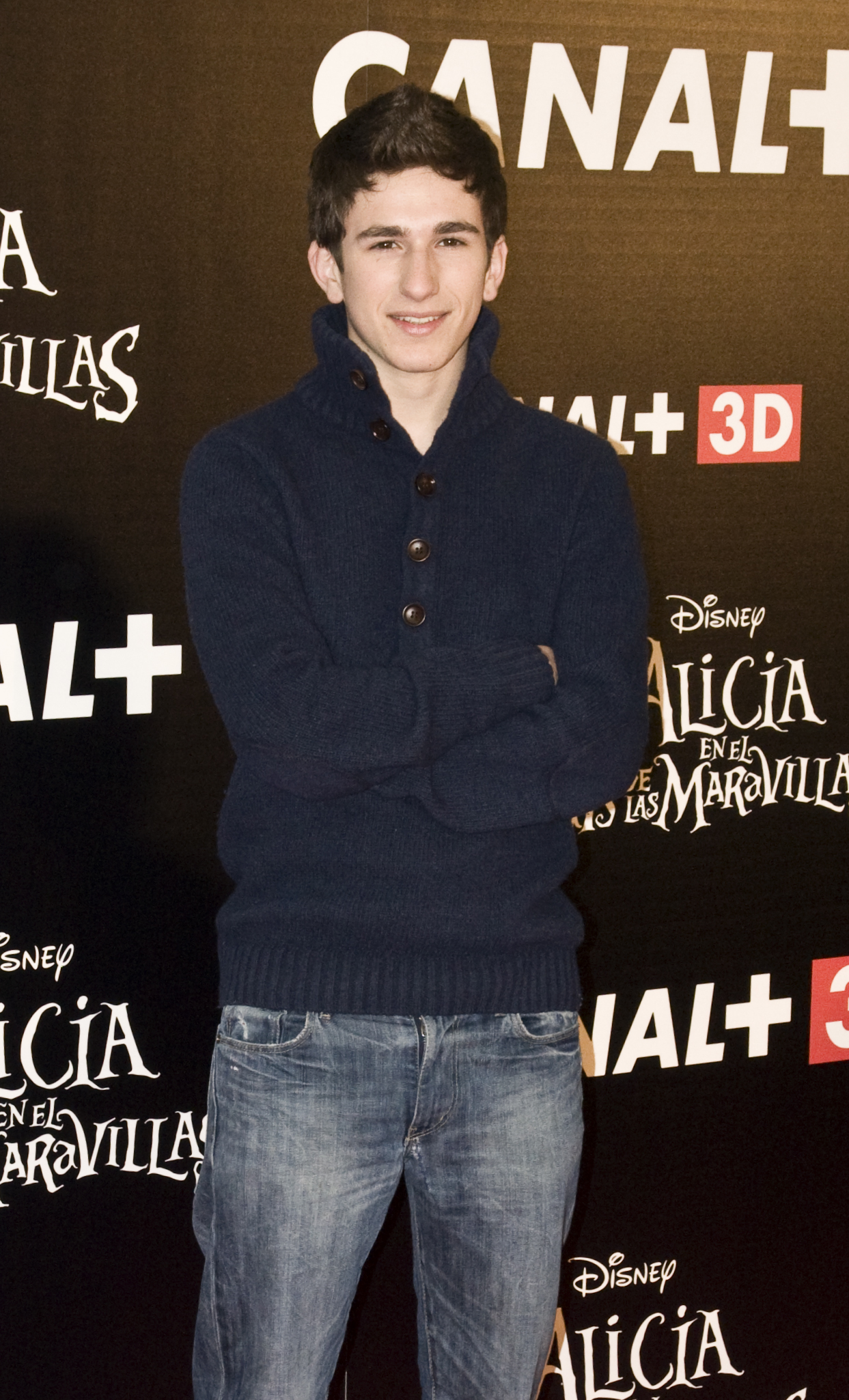 David Castillo Spanish actor at the photocall of Alice in Wonderland in 2010.